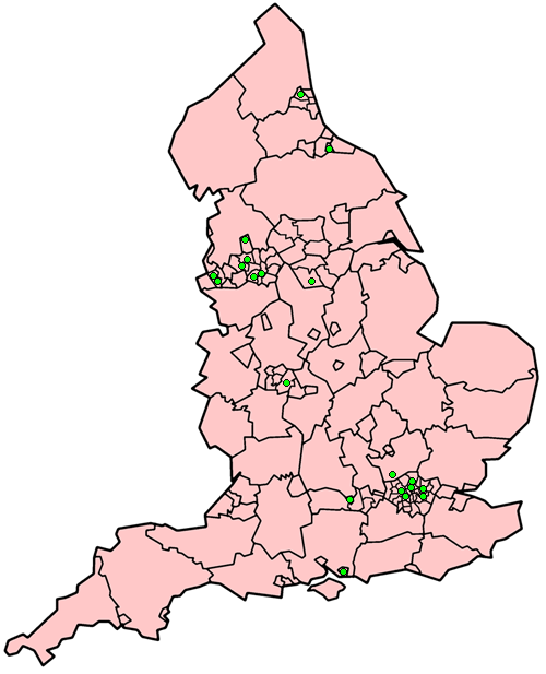 Locations of the 20 Premiership clubs for the 2006/2007 season.